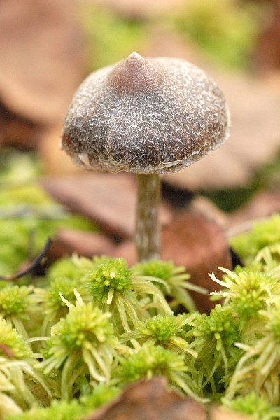 Cortinarius hemitrichus from Commanster, Belgium. If you think this is a different taxon, please contact James Lindsey.